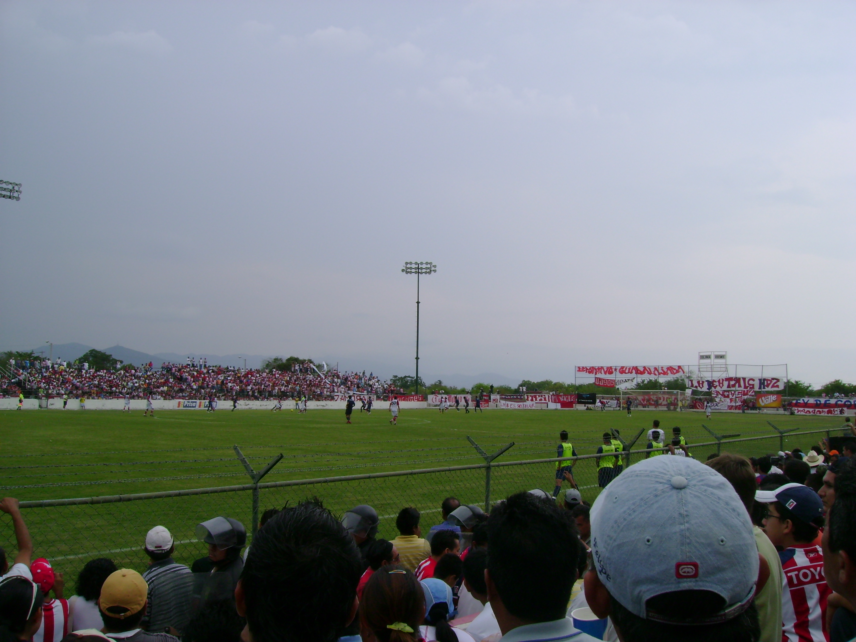 Partido entre Tuberos Real Colima y Chivas de Guadalajara en el Estadio Colima.